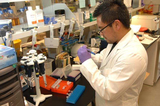 Medical Laboratory Scientist at bench with micropipettes.